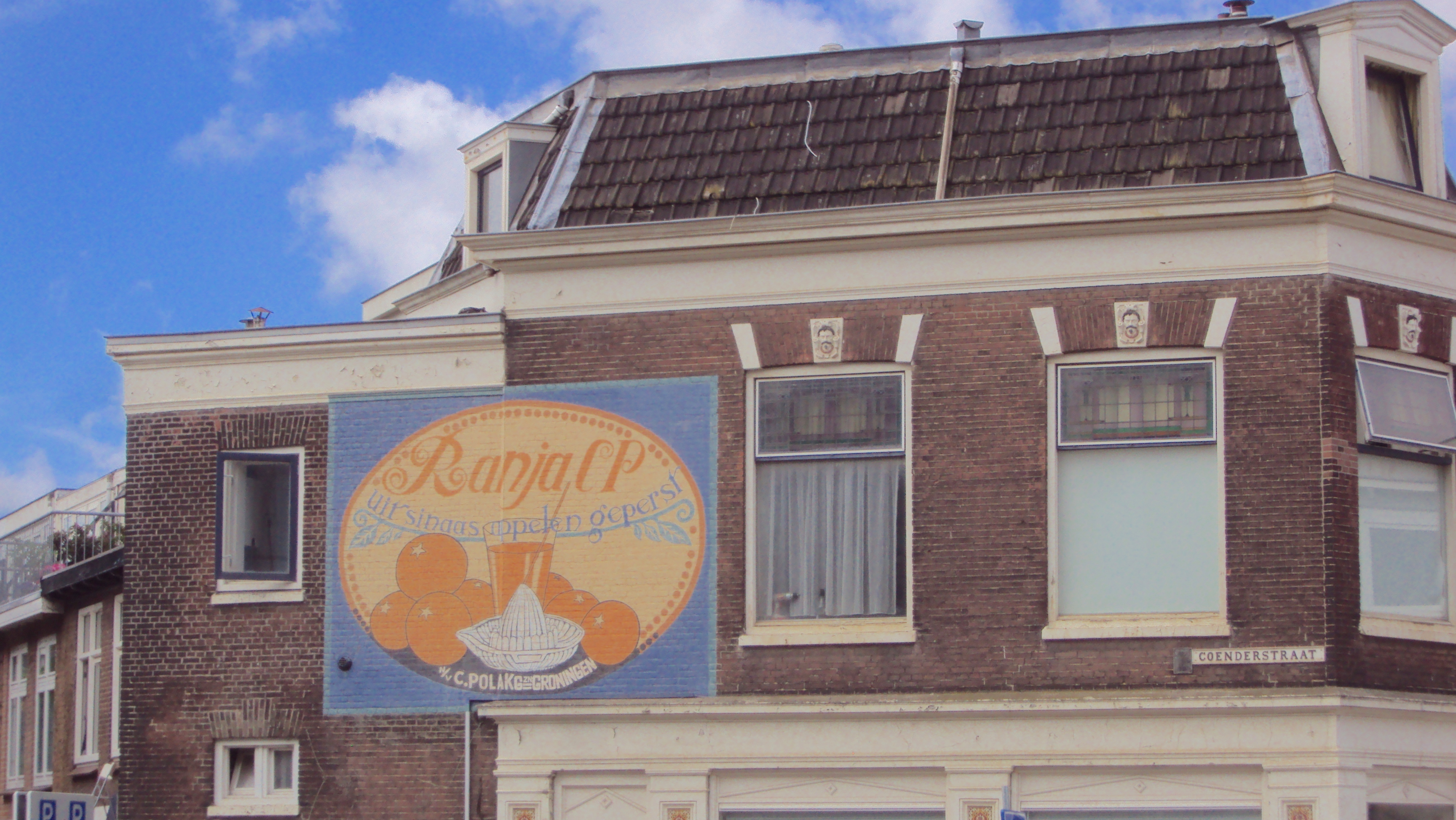 Mural with an advertisement for lemonade.